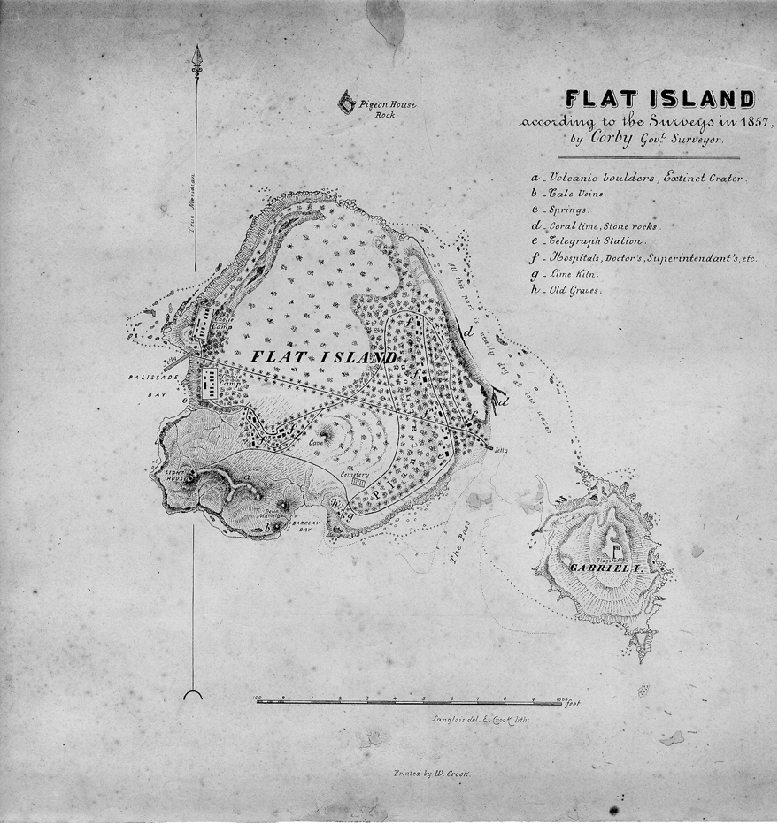 map of Flat Island, Mauritius, also showing Gabriel Island and Pigeon (House) Rock